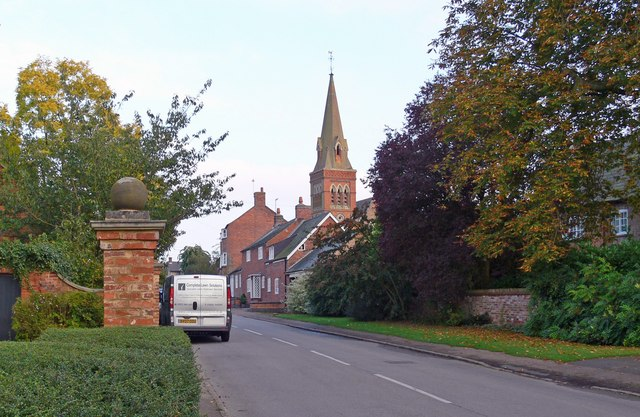 St. Andrew's Church, Tur Langton Looking east along Main Street.